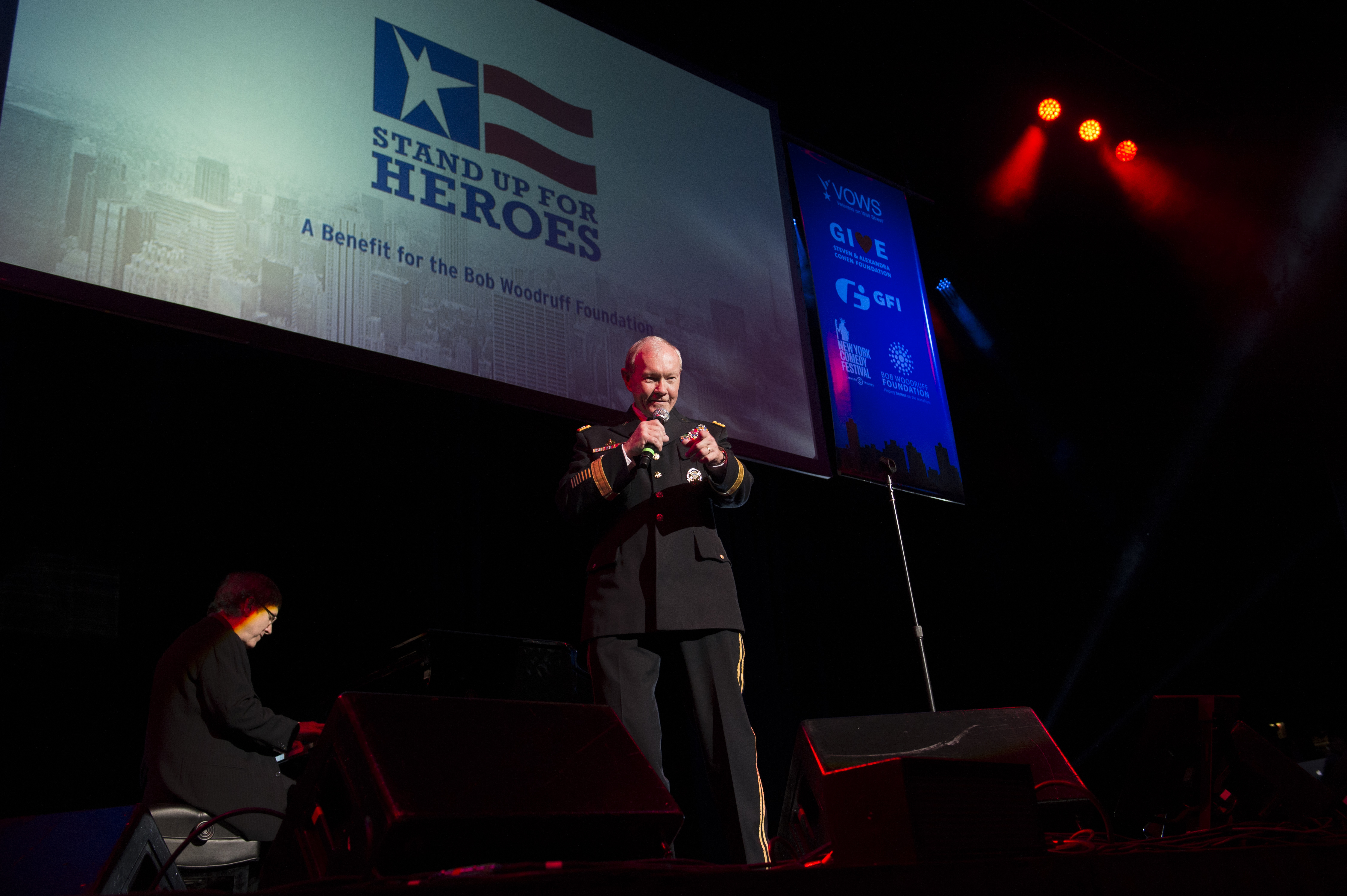 Chairman of the Joint Chiefs of Staff Gen. Martin E. Dempsey sings onstage during the Stand Up for Heroes special at Madison Square Garden in New York City, Nov. 5, 2014. (DOD photo by Mass Communication Specialist 1st Class Daniel Hinton/Released) Unit: Defense Imagery Management Operations Center DVIDS Tags: Comedy; Joint Staff; CJCS; Dempsey; DIMOC; MSG; Stand Up for Heroes; Martin E. Dempsey; DVIDS Bulk Import; Deanie